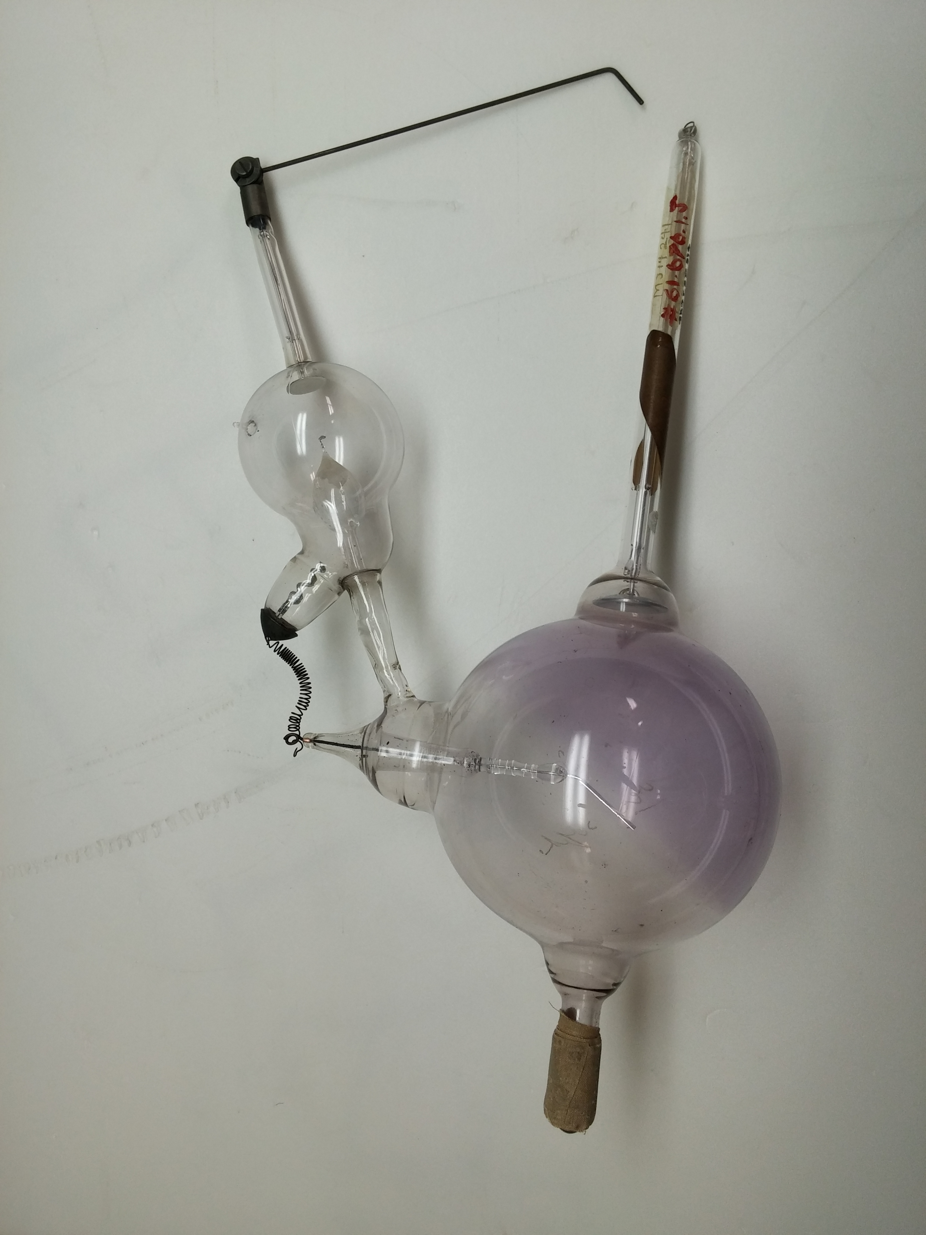 This is an X-ray tube designed and patented by Henry Lyman Sayen while he was working for the James W. Queen & Company.